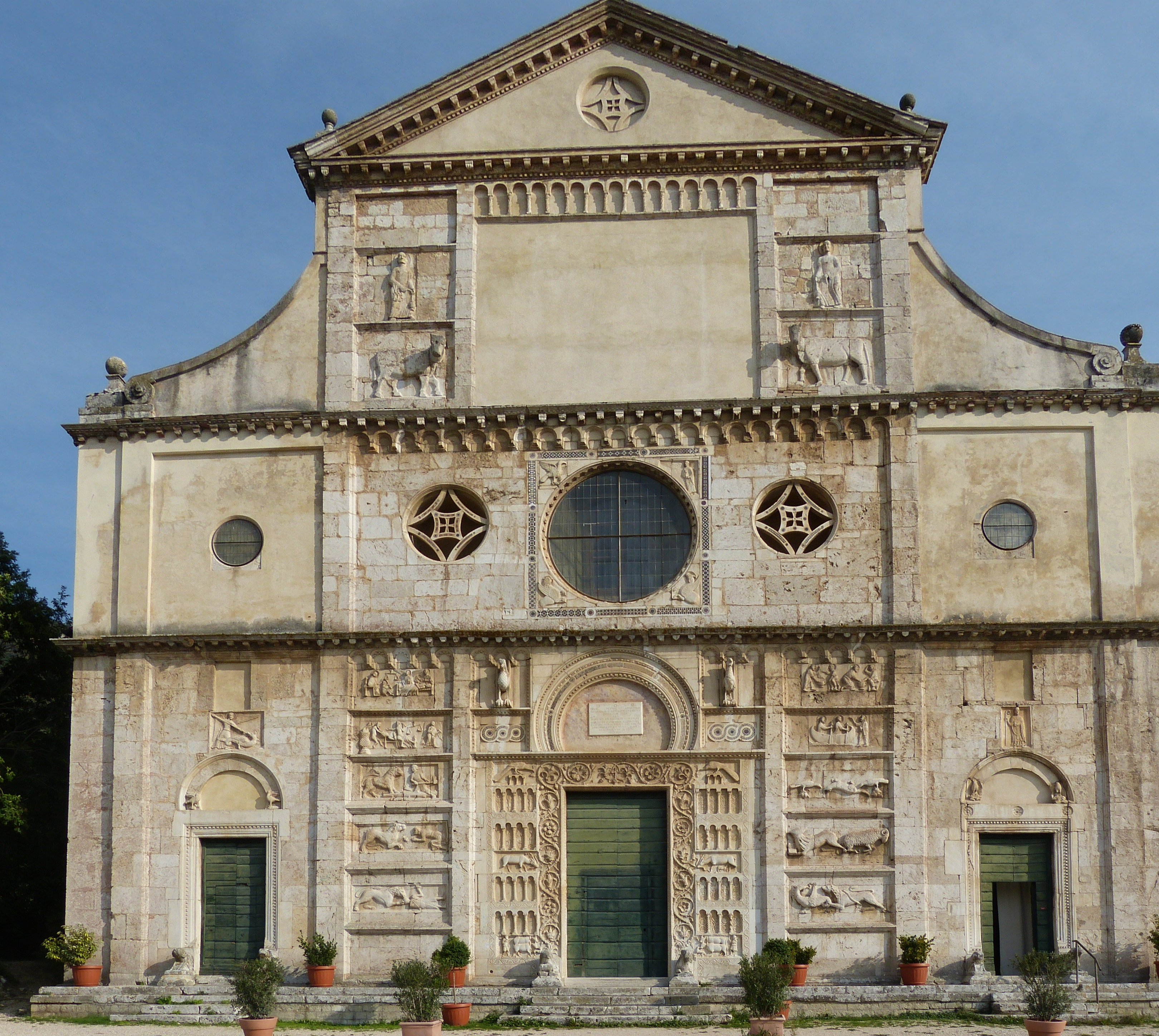 Spoleto ( Umbria ). San Pietro fuori le mura: Romanesque facade ( 1200s )